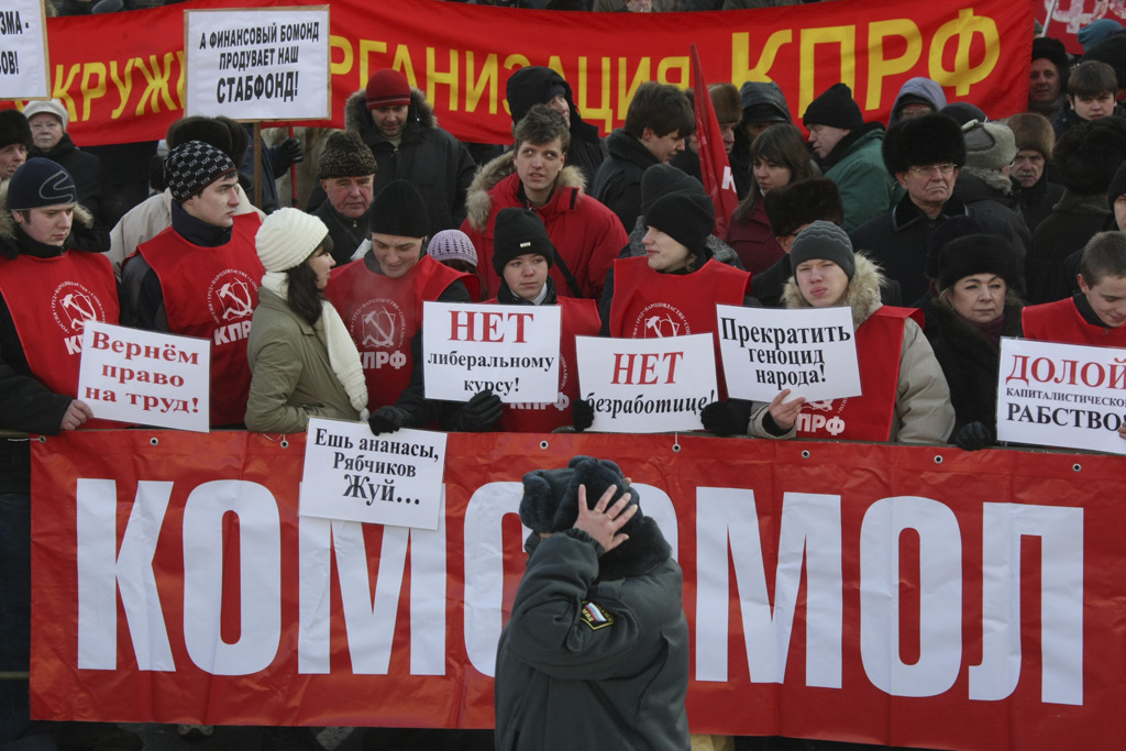 “Communist Party supporters rally in Moscow's Triumfalnaya Square”. Communist Party supporters holding a rally in Moscow's Triumfalnaya Square against surging utility tariffs, as part of the Communist Party's national protest action.